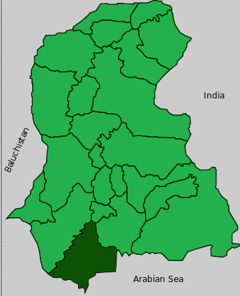 Sujawal District